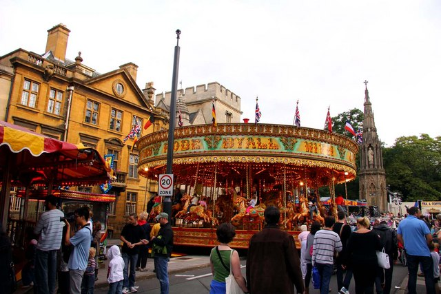 St Giles Fair in Oxford St Giles Fair is held every year on the Monday and Tuesday after the first Sunday in September